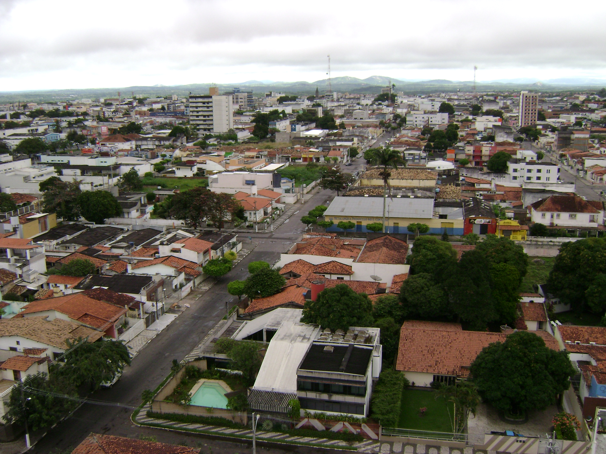 Vista de Feira de Santana através de um edifício.